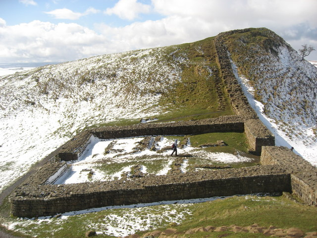 Milecastle 39 (5)